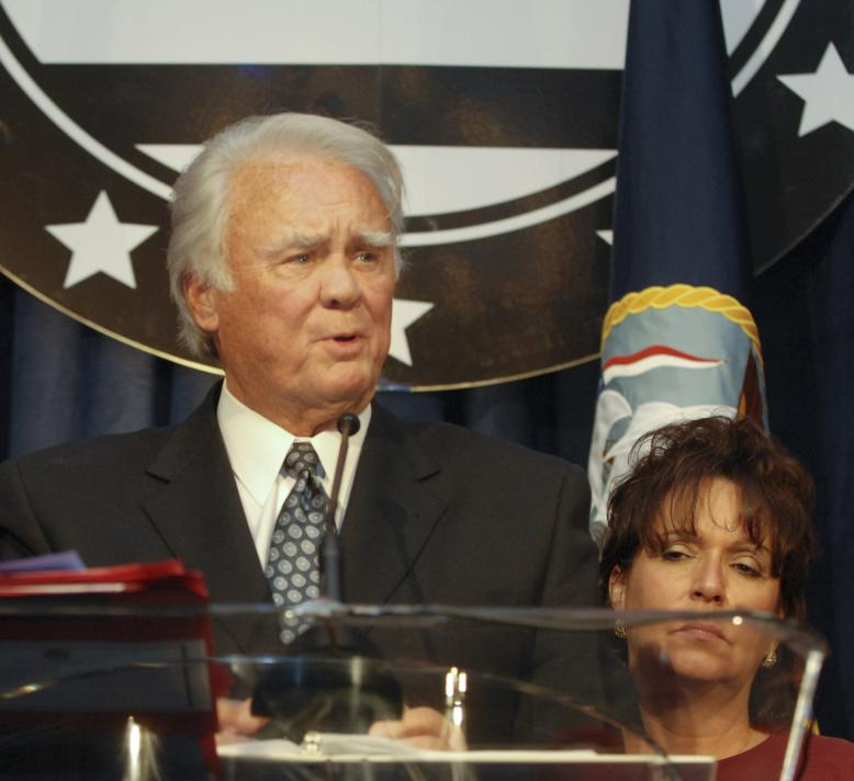 This picture is of Congressman Young and his Wife at the AFF gala